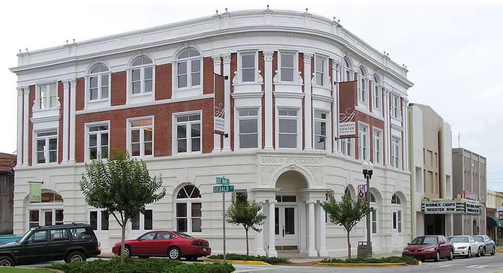 Photograph of the Averitt Center for the Arts in Statesboro, Georgia, USA. The Averitt Center for the Arts is located in downtown Statesboro next to the Bulloch County courthouse. If you were able to pan towards the left of this photograph, you would be able to see the courthouse. The Averitt Center for the Arts is located in the renovated Bank of Statesboro building and the renovated theater next to it. The Averitt Center for the Arts uses the three story space of what was once the Bank of Statesboro to house galleries, offices, and artist studios. The renovated theater is now the Emma Kelly Theater which connects to the gallery space. The theater is used for plays and community events. Photograph taken by Richard Chambers with an Olympus C-740 digital camera around 7pm on Friday, June 10, 2005. He attended the reception for the Statesboro Regional Arts Association exhibition which is on display June 10 through August 7, 2005. The exhibition contains paintings and other works of art created by members of the Statesboro Regional Arts Association.